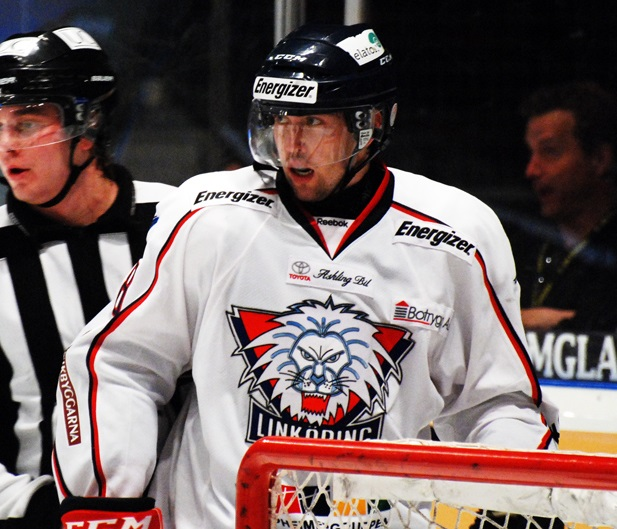 Albin Lorentzon during a SHL game against AIK.